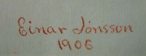 Einar Jonsson's signature on a drawing, 1906